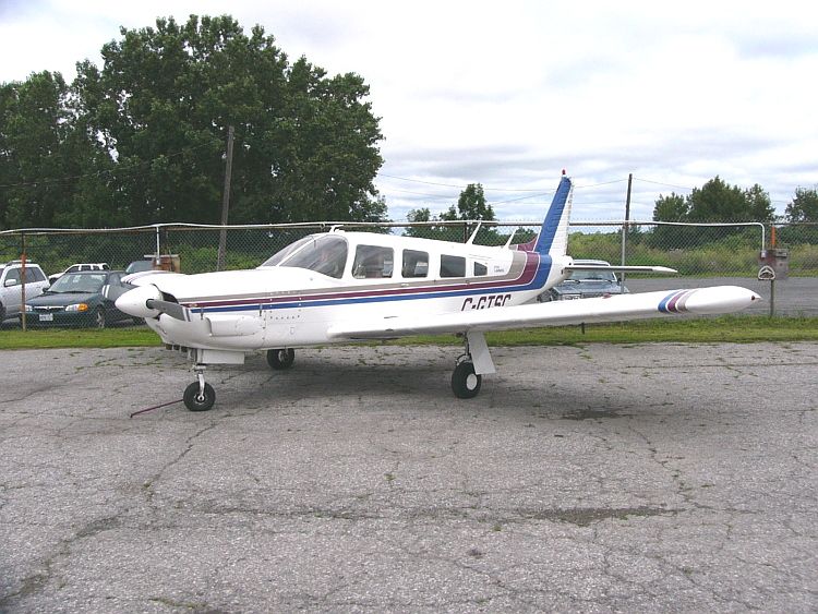 I took this photo of Piper PA-32R-300 Lance C-GTSC at Rockcliffe Airport on 03 August 2008.